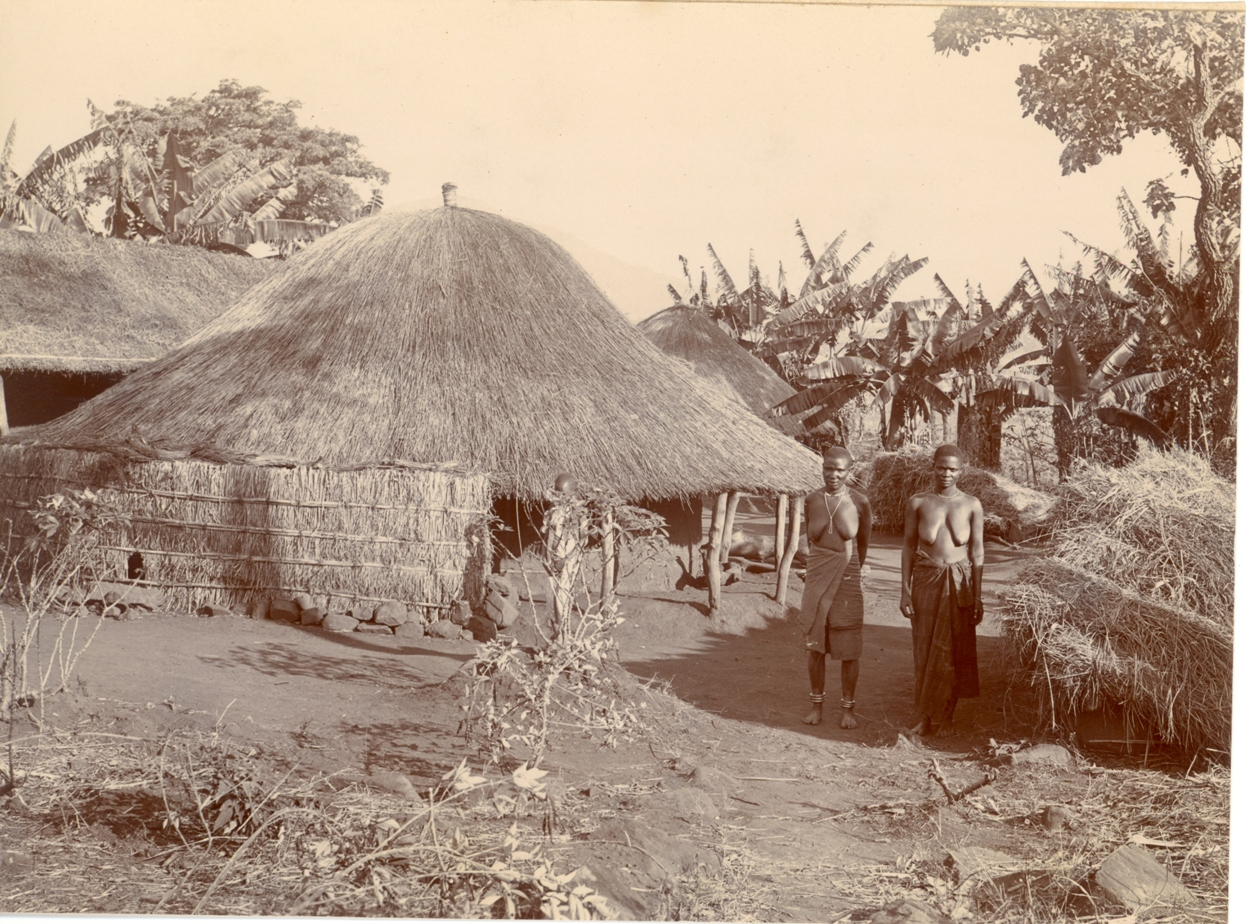 African village, Zomba, Malawi